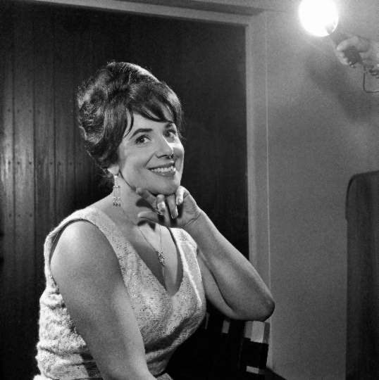 Photograph of the Finnish celebrity and journalist Tabe Slioor (1926–2006).